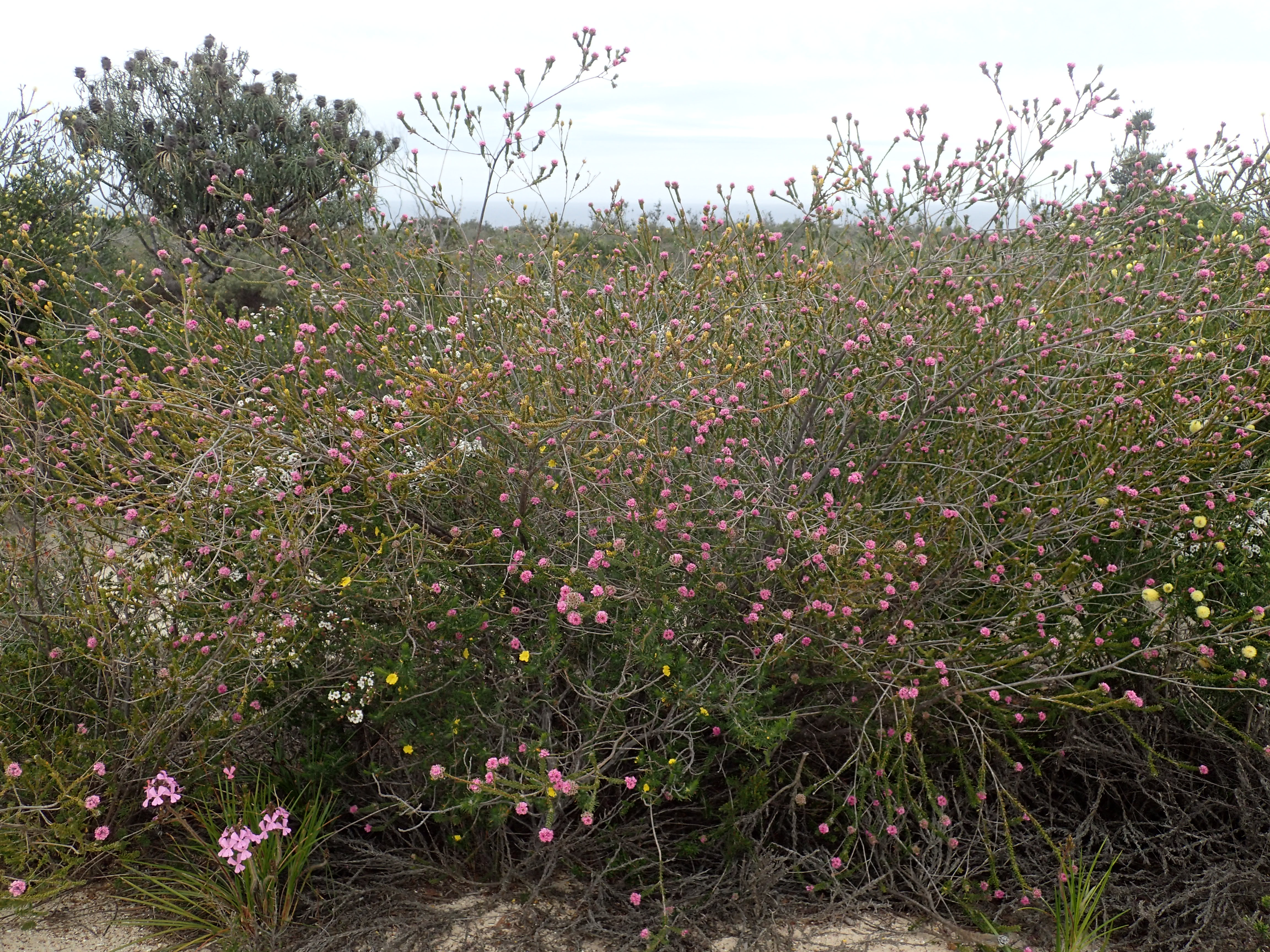 Kunzea similis growing on East Mount Barren in the Fitzgerald River National Park, W.A.